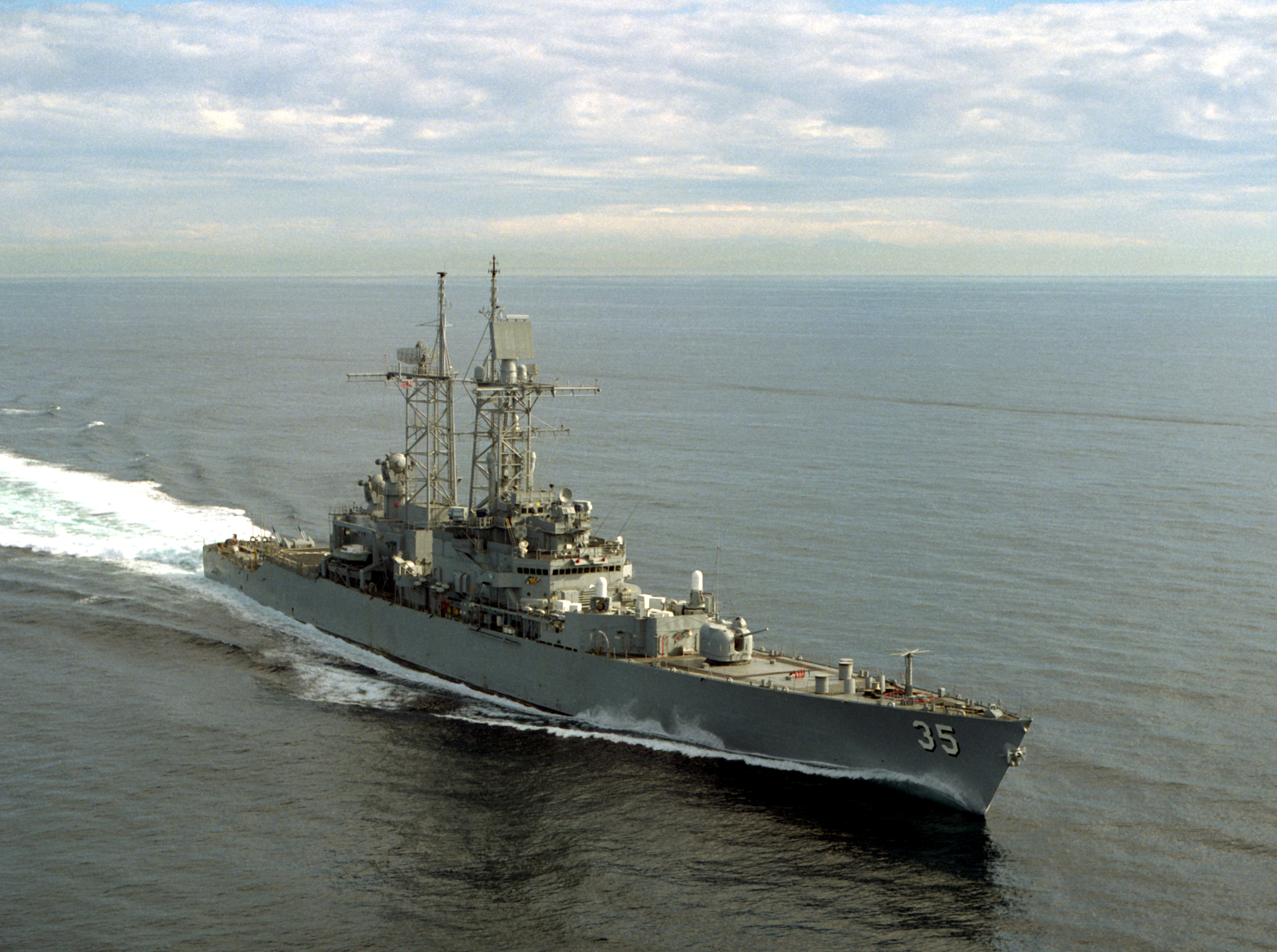 The U.S. Navy guided missile cruiser USS Truxtun (CGN-35) underway in the Pacific Ocean off San Diego (USA) on 3 January 1989.